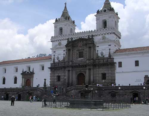 Church of San Francisco (1540) in Quito (Ecuador).